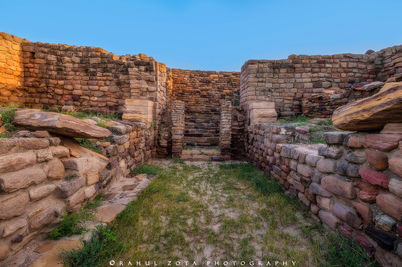 Dholavira is an archaeological site in Kutch district, India. It is one of the five largest Harappan sites and most prominent archaeological sites in India belonging to the Indus Valley Civilizations. The site was occupied from c.2650 BCE, declining slowly after about 2100 BCE. It was briefly abandoned then reoccupied until c.1450 BCE.